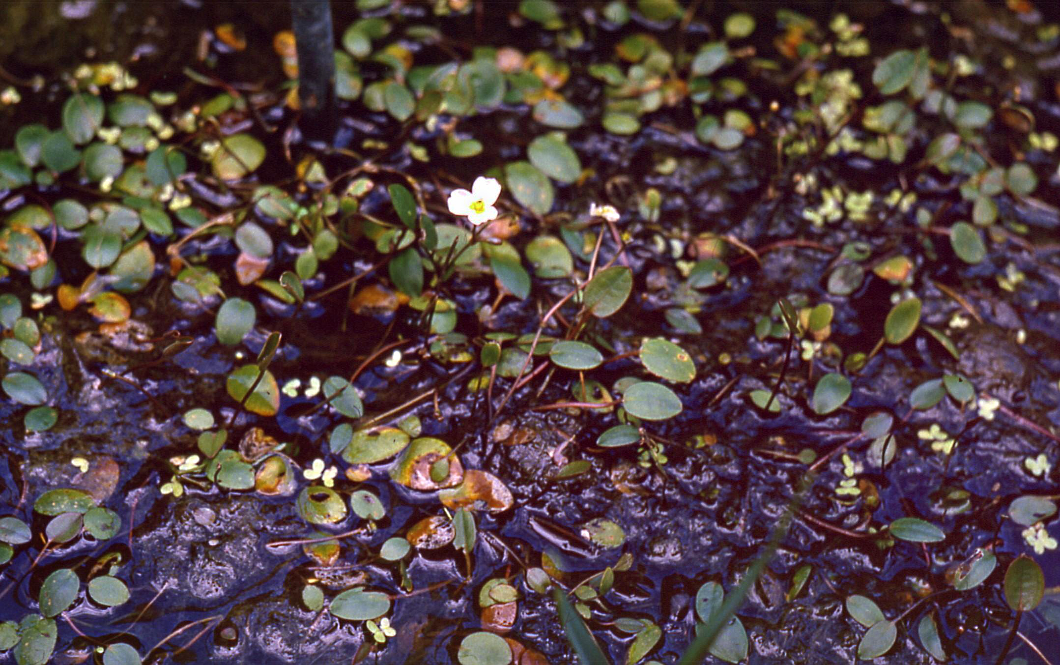 Flowering Floating Water-plantain, Luronium natans, a rare species of aquatic plant (Alismataceae).